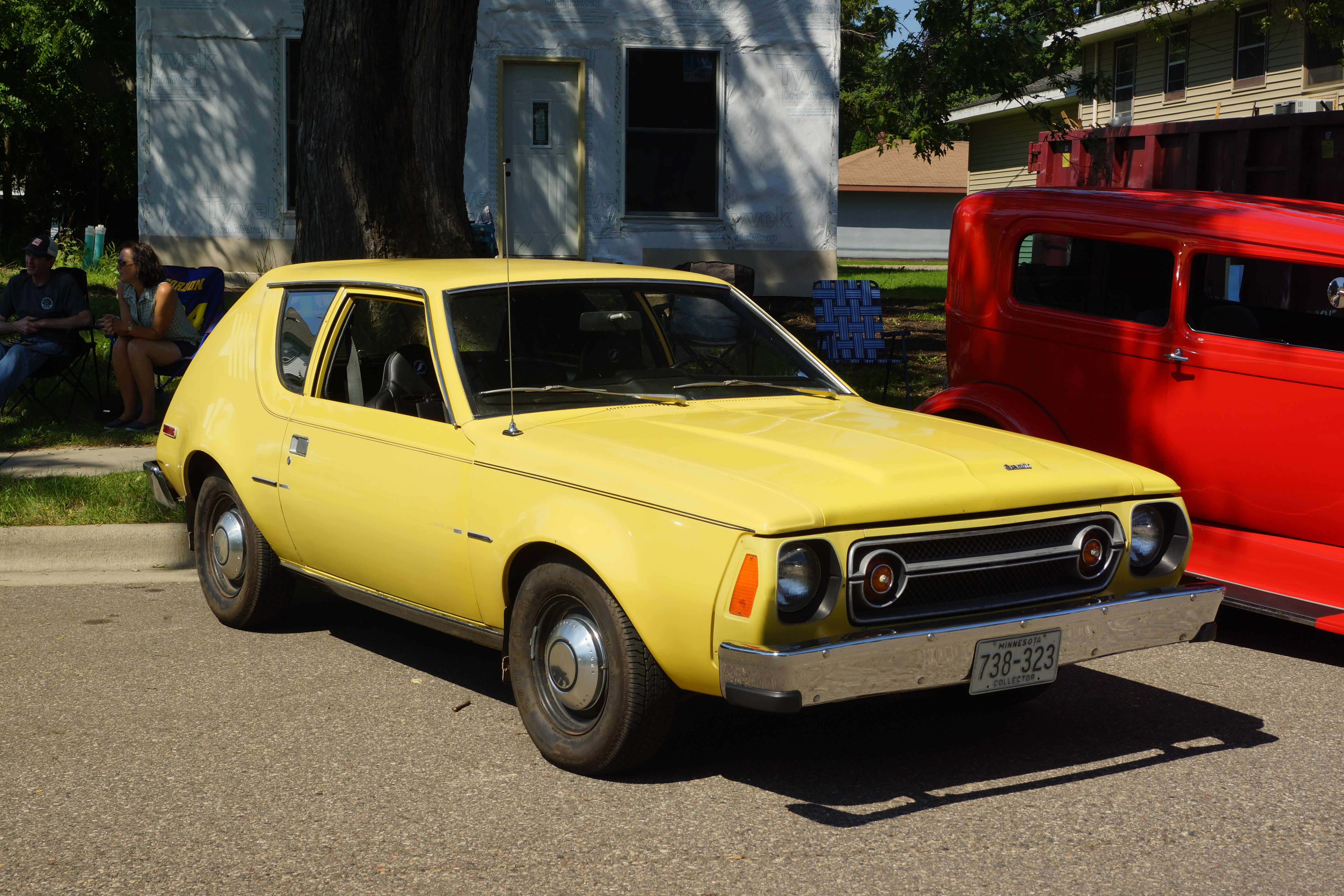 Gear-Head Get Together Show & Swap Meet Maple Lake, Minnesota August 2017 ----- Click here for more car pictures at my Flickr site. Or here for my Car Crazy Tumblr site. Or on Twitter @DVS1mn.